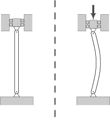 A column exhibiting the characteristic deformation of buckling under a centric axial load.